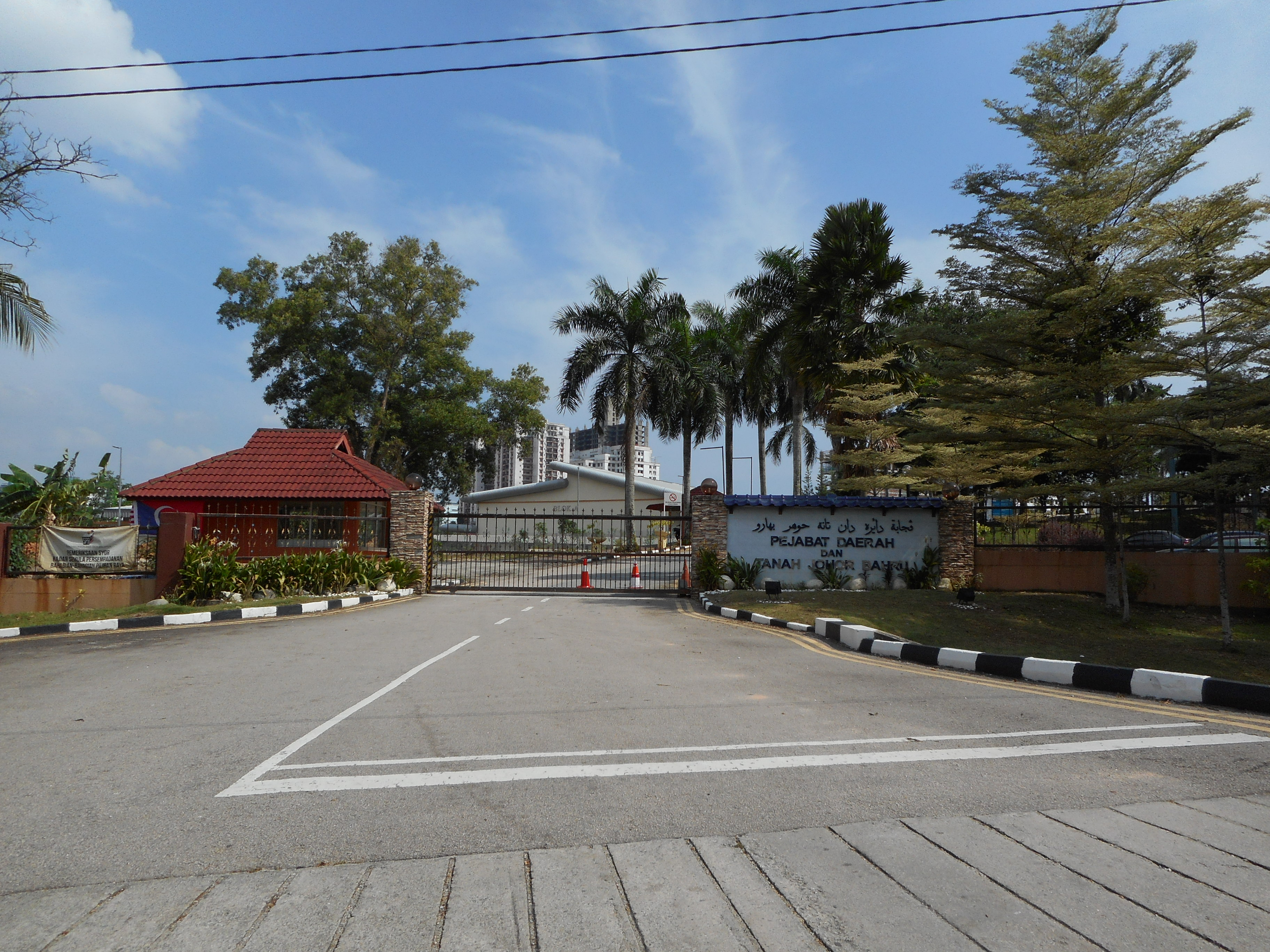 Johor Bahru District and Land Office, Larkin Jaya, Johor Bahru, Johor, Malaysia